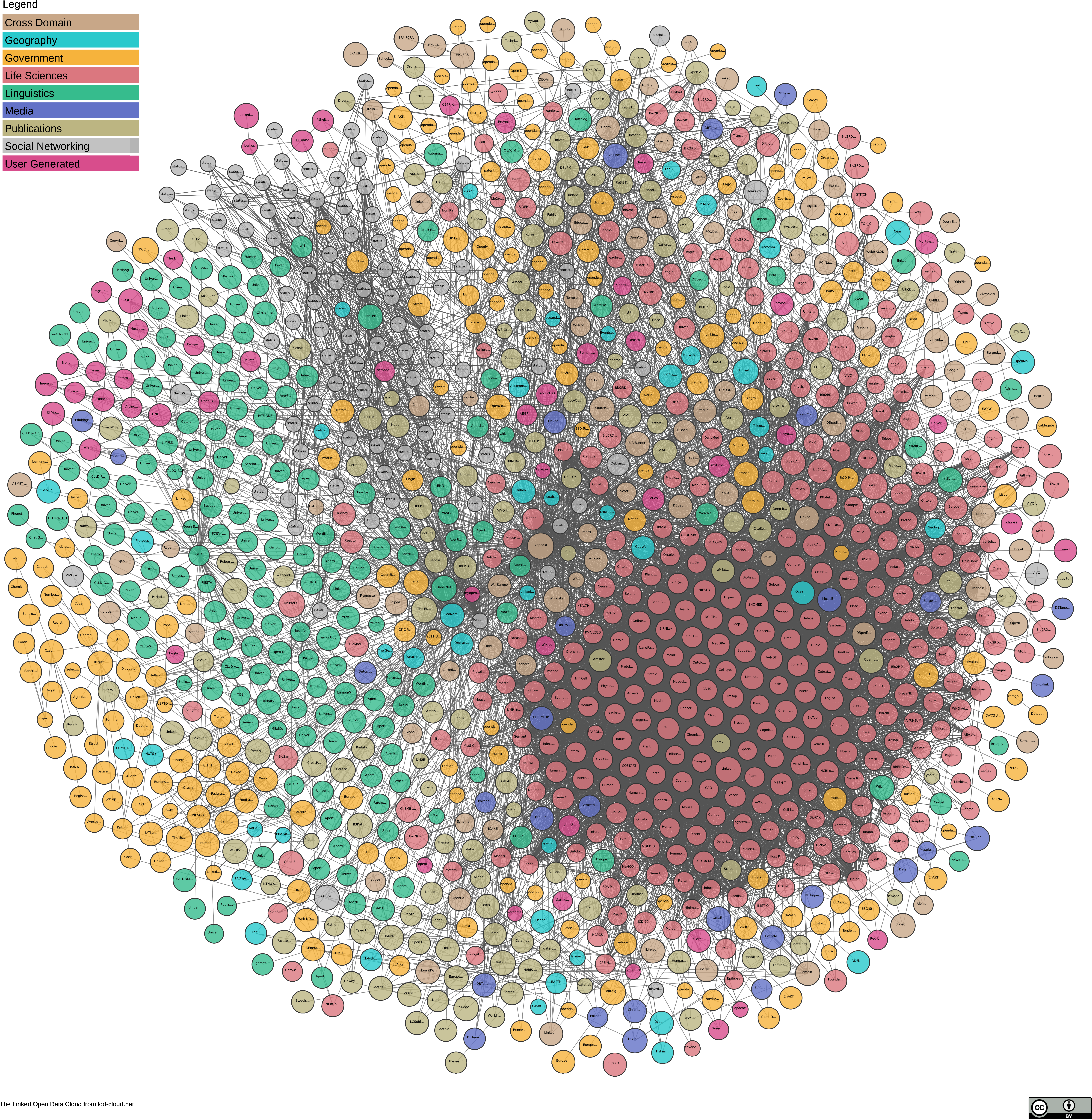 Linking Open Data cloud diagram.